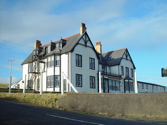 St Magnus Bay Hotel, Hillswick, Shetland This hotel was built as a kit in Norway, dis-assembled and transported to Hillswick where it was constructed on its present site in 1900 by the North of Scotland, Orkney & Shetland Steam Navigation Co.. Sadly it is currently closed (April 2006) although the local community wish to see it opened again. For more information on Hillswick and surrounding area visit UPDATE Oct 07: this hotel is now owned by a local couple and open every day - More information can be found at the official website